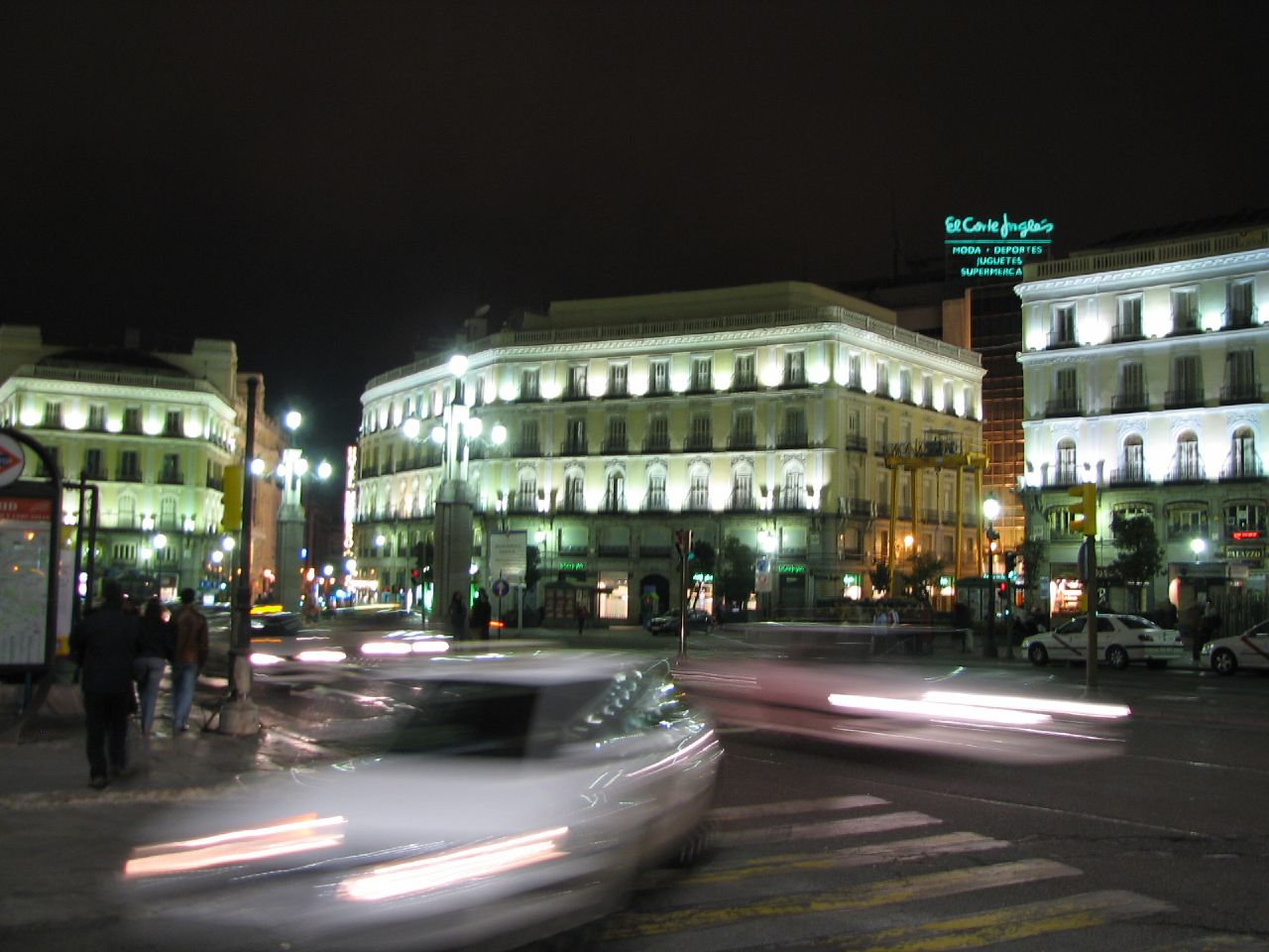 Night view from the Puerta del Sol (Madrid, Spain).